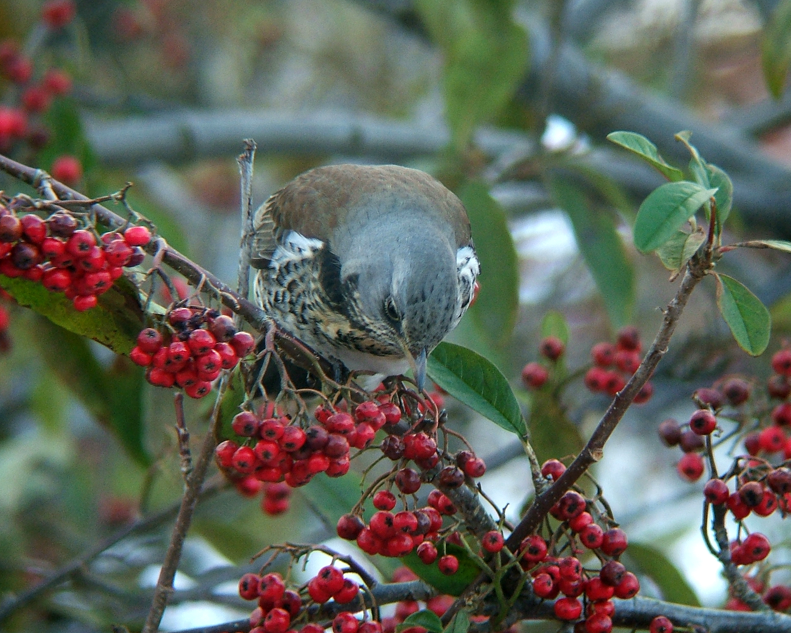 Turdus pilaris feeding on Cotoneaster frigidus berries. Jesmond Dene, Northumberland, UK.